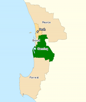 This image incorporates data that is: © Commonwealth of Australia (Australian Electoral Commission) 2009 Division of Canning 2010